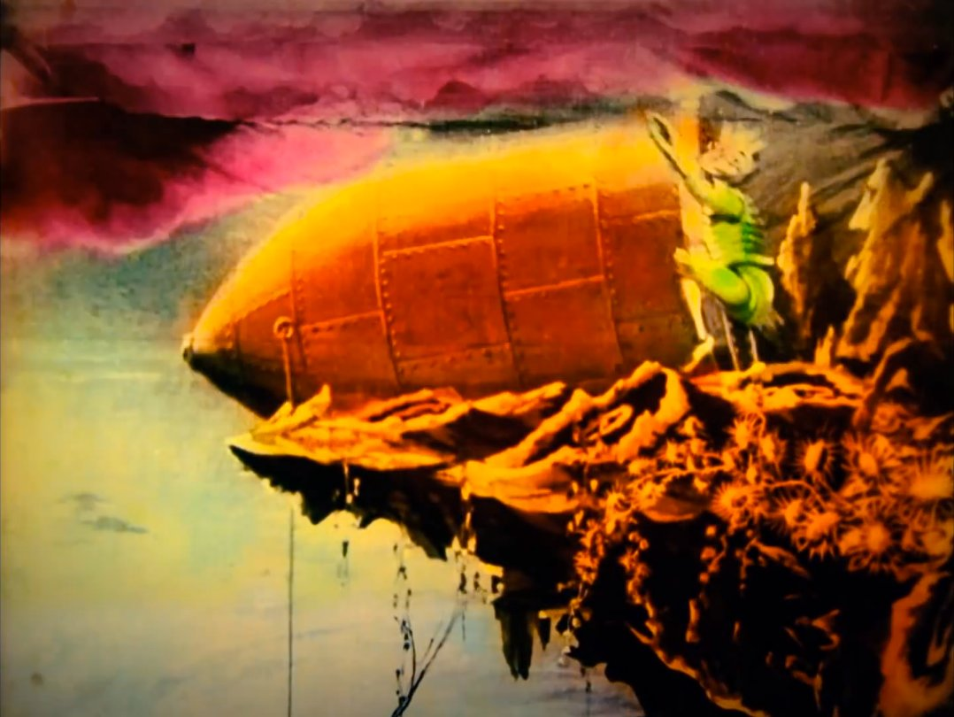 Frame from Georges Méliès's film A Trip to the Moon (1902).